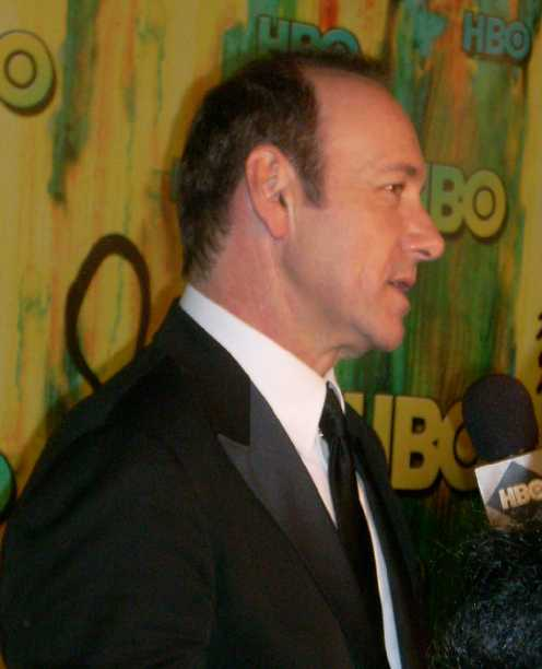 Kevin Spacey, at the HBO post-Emmys party, in 2008 Cropped.